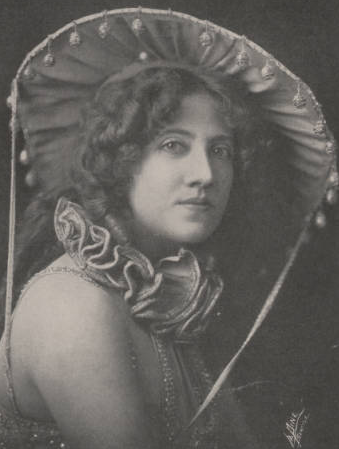 Mazie King, from 1916 sheet music. A young white woman wearing a large, wide-brimmed hat and a ruffled collar. Her shoulder is bare. Her hair is in loose curls.